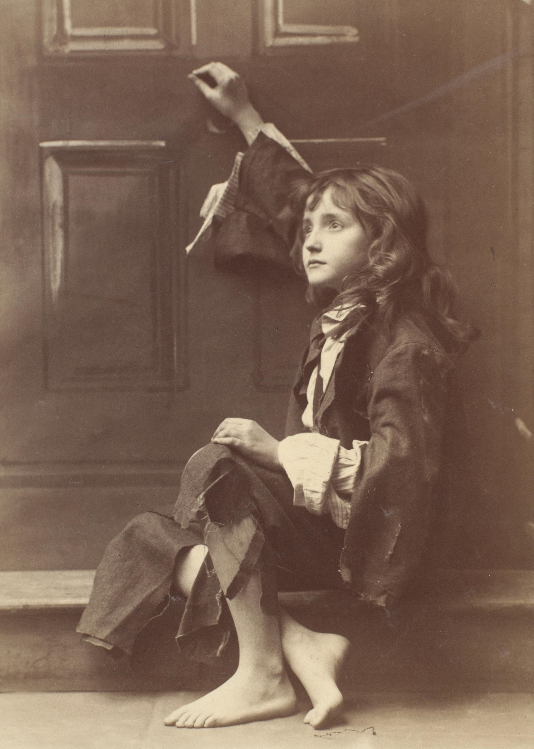 Object: Photograph Place of origin: Great Britain (photographed) Date: 19th Century (photographed) Artist/Maker: Ellis, Alfred (photographer) Materials and Techniques: Sepia photograph on paper Credit Line: Bequeathed by Guy Little V&A's collections. Museum number: S.133:688-2007 Gallery location: In Storage